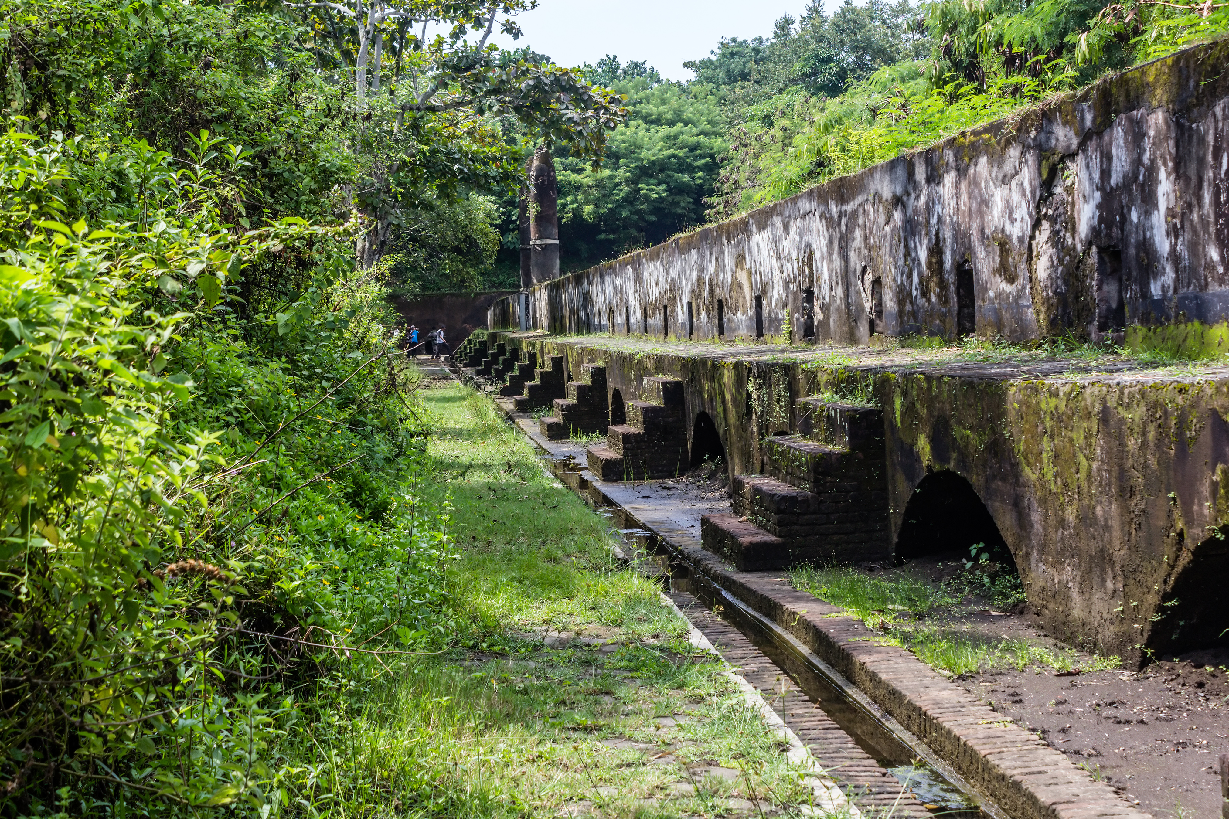 Fortifications, Benteng Pendem, Cilacap 2015-03-21